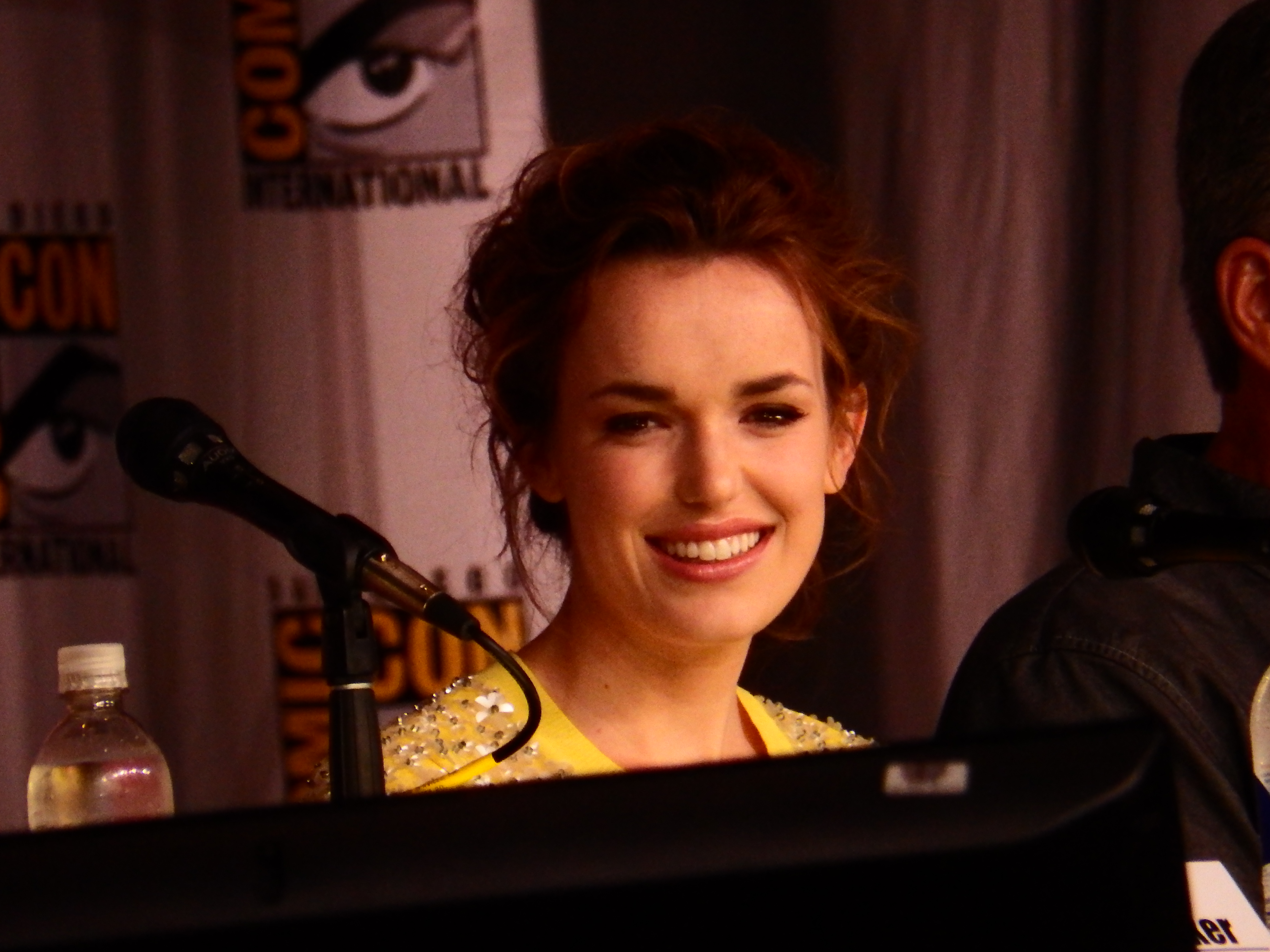 Elizabeth Henstridge at the 2013 San Diego Comic-Con International